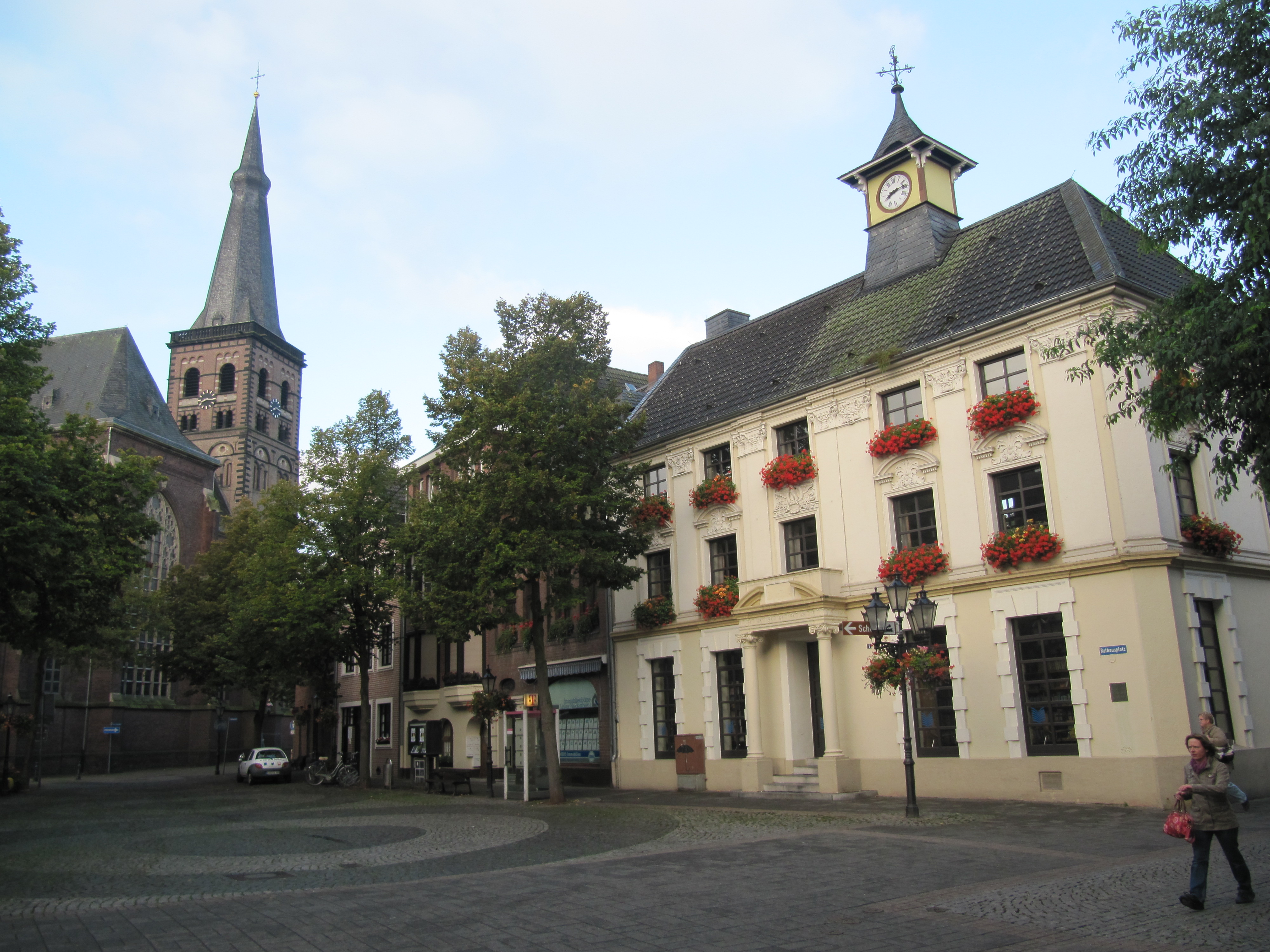 Tönisvorst, district of Viersen, North Rhine-Westphalia, Germany, part Sankt Tönis. Rathausplatz Square.